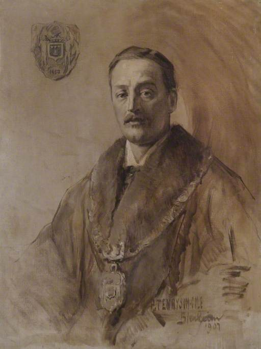 Cole, Philip Tennyson; Charles Richard John Spencer-Churchill (1871-1934), 9th Duke of Marlborough; Woodstock Town Council